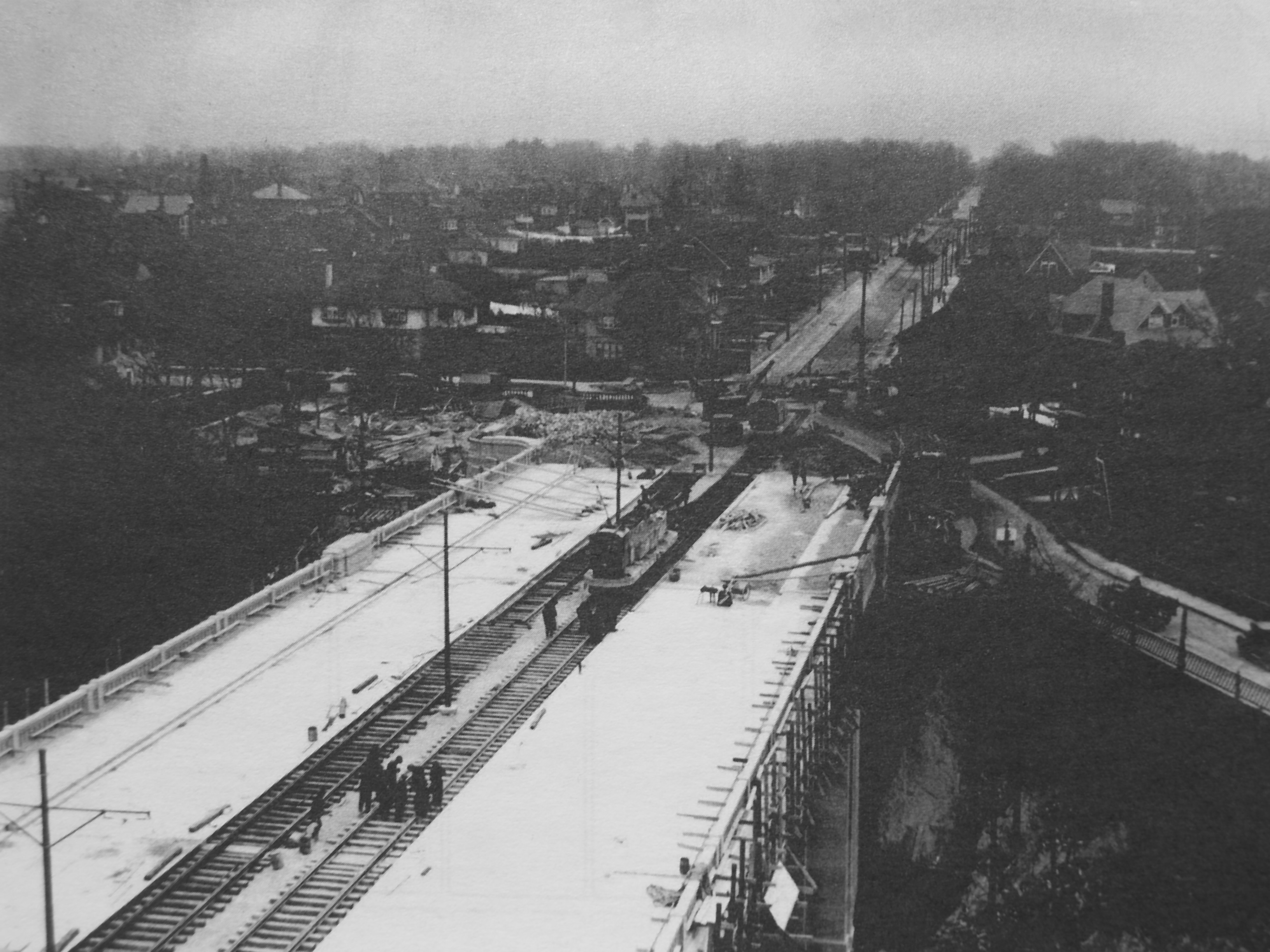 Construction of the bridge that carries St Clair Avenue East over David A. Balfour ravine in 1924. View is facing east towards what would later become the Mount Pleasant Extension. Toronto, Ontario, Canada.